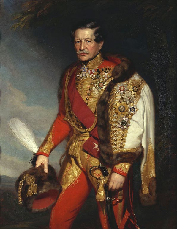 Portrait wearing the uniform of the Imperial and Royal Army